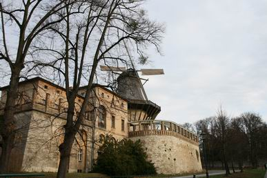 das sanscousie in potsdam